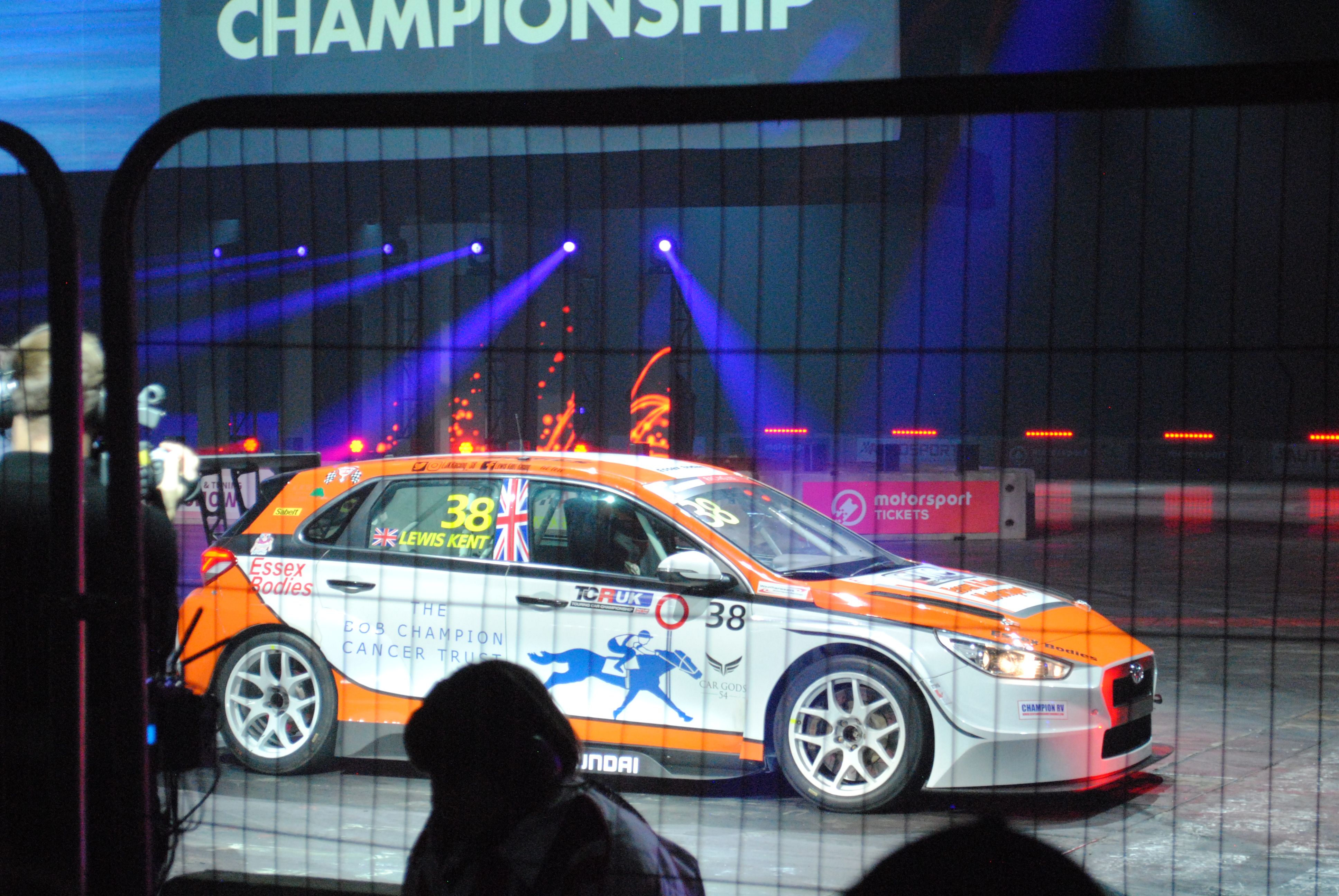 Lewis Kent's Hyundai i30N TCR, which competes in the TCR UK Championship, at the Autosport International show in 2020.